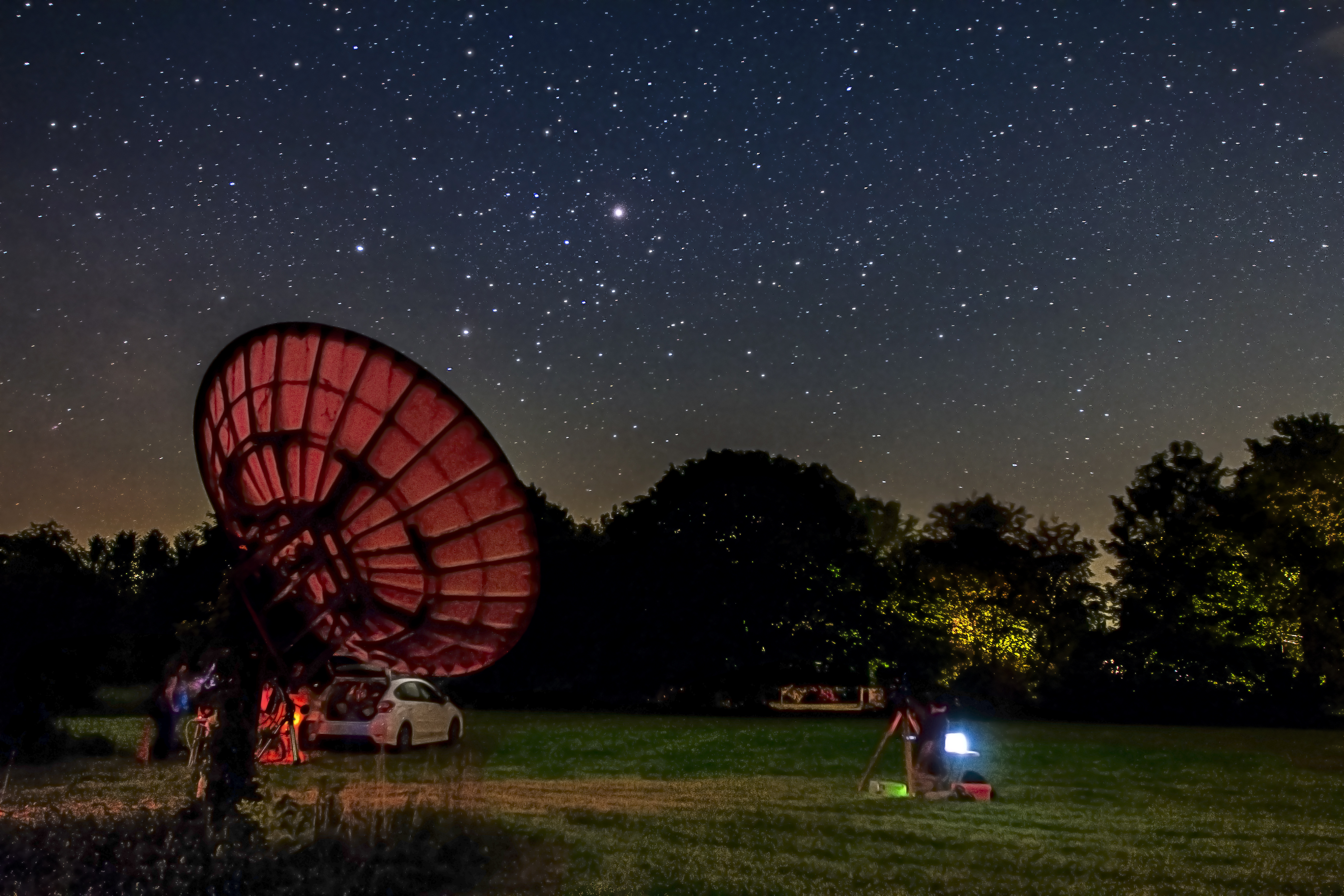 Custer Astronomical Observatory, Southold, New York, USA. It's about 1.5-hour drive from NYC, on the north shore of Long Island, and has one of NY with dark skies. Radio Telescope and Jupiter.